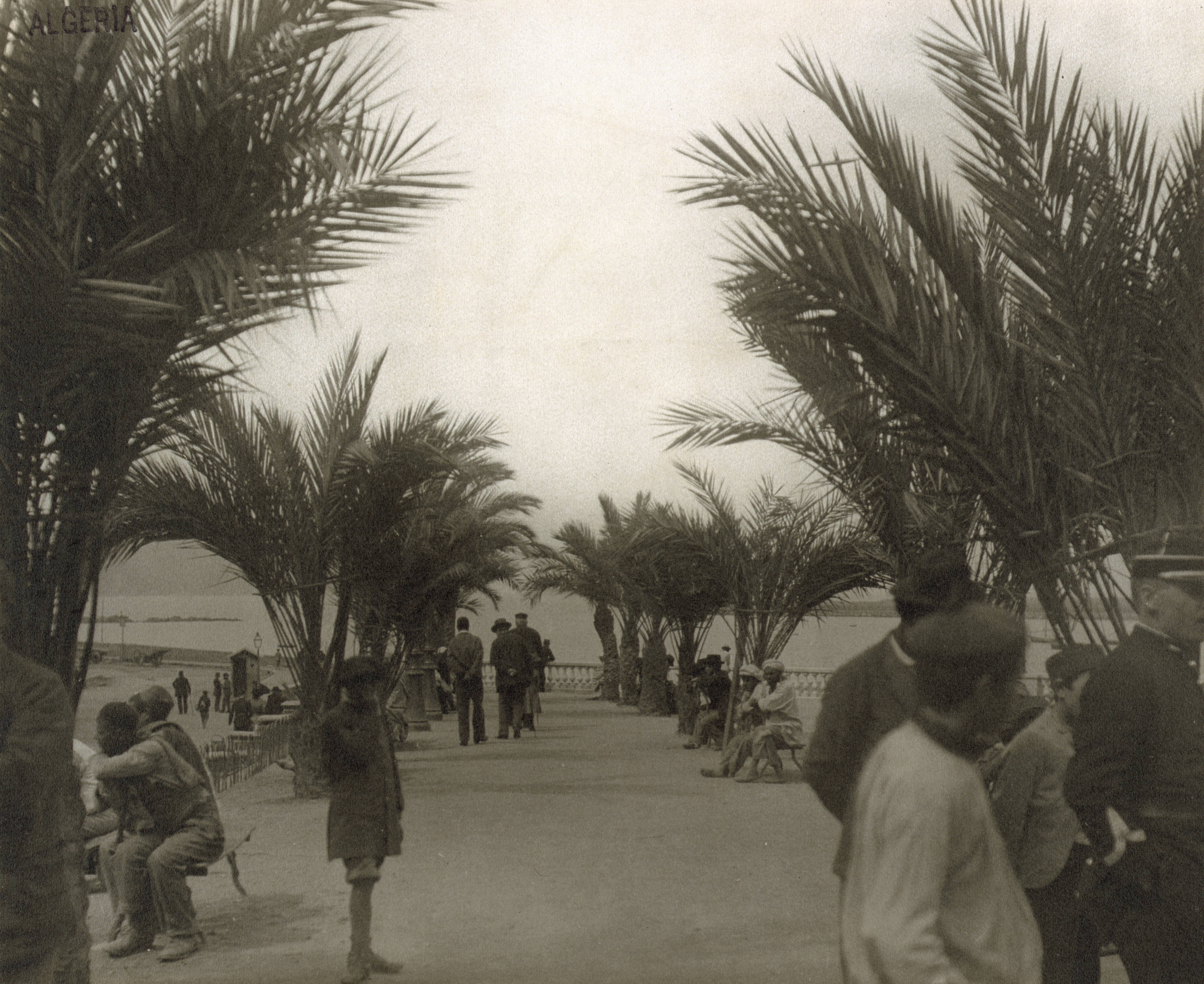 Waterside park with path lined with benches and palm trees — in Philippeville (Skikda), Algeria. Latter 19th century, during French Algerian colony era.